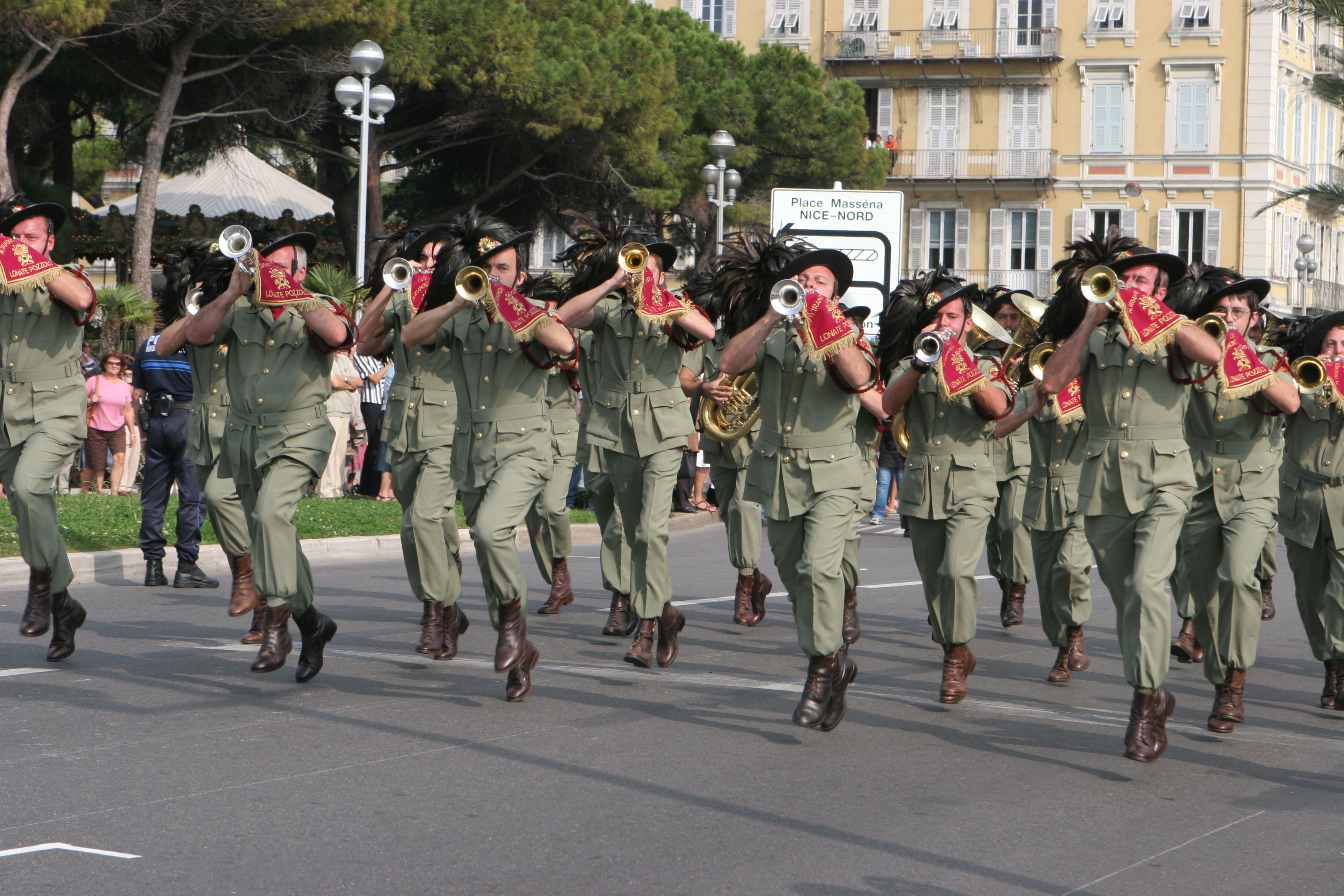 A bersaglieri fanfare playing at a military music festival in Nice, France